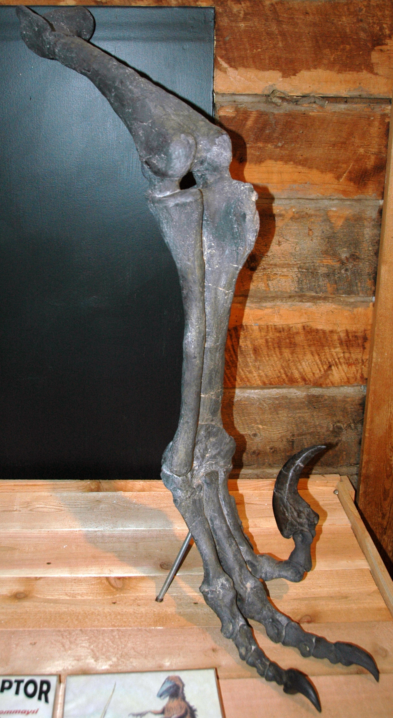 Utahraptor ostrommaysorum theropod dinosaur from the Cretaceous of eastern Utah, USA (public display, Morrison Natural History Museum, Morrison, Colorado, USA). Utahraptor is a famous predatory dinosaur, frequently referred to by the Hollywood term "raptor". Utahraptor had a greatly enlarged claw on each foot (shown here), as did some other theropods like Deinonychus. Classification: Animalia, Chordata, Vertebrata, Dinosauria, Theropoda, Dromaeosauridae Stratigraphy: Cedar Mountain Formation, Lower Cretaceous Locality: eastern Utah, USA Theropod were small to large, bipedal dinosaurs. Almost all known members of the group were carnivorous (predators and/or scavengers). They represent the ancestral group to the birds, and some theropods are known to have had feathers. Some of the most well known dinosaurs to the general public are theropods, such as Tyrannosaurus, Allosaurus, and Spinosaurus.